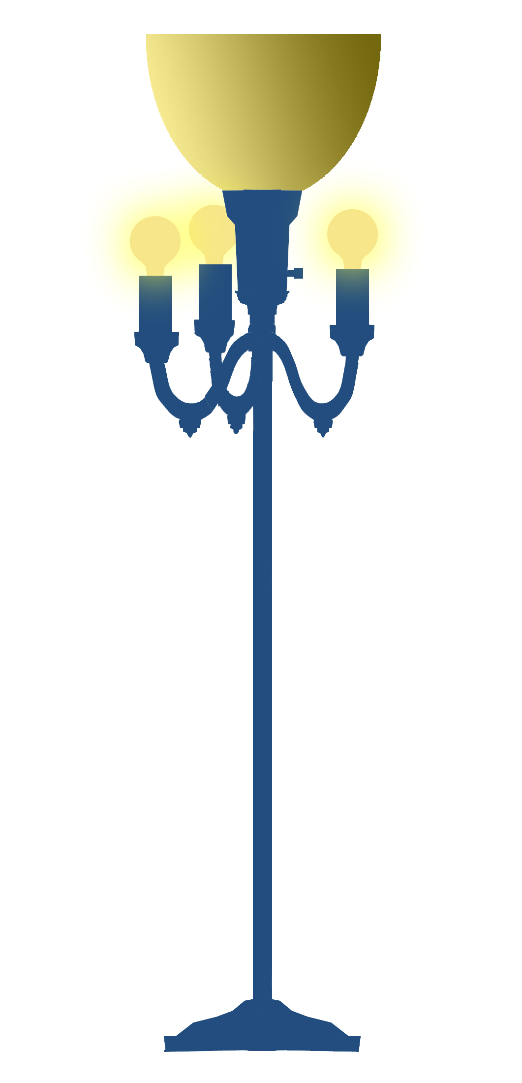 Graphic image of a mogul floor lamp. Author: Kirby D. Schroeder (Me)